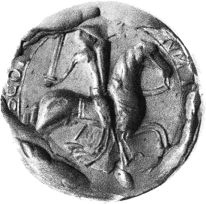 Seal of David, Earl of Huntingdon. The seal dates to about 1160. It shows an armed knight on horseback, with sword drawn in his right hand, and a shield in his left hand. Only one or two letters of the inscription are visible.